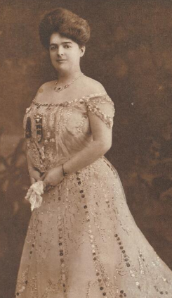 A white woman with dark hair in a bouffant updo, standing, wearing an off-the-shoulders gown with sequins and holding white gloves in her hand.